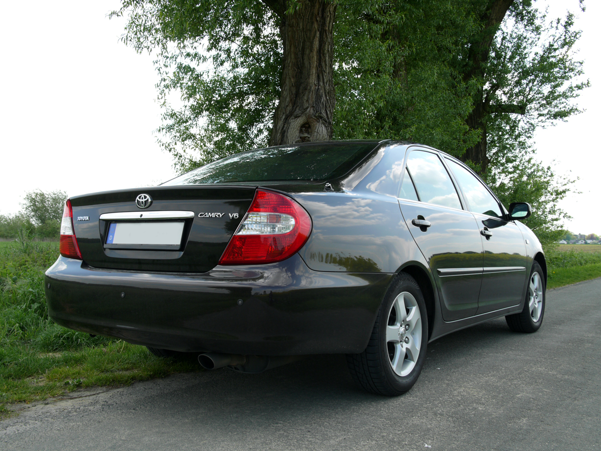 European version of Toyota Camry V6 XLE (2001-2004), MCV30